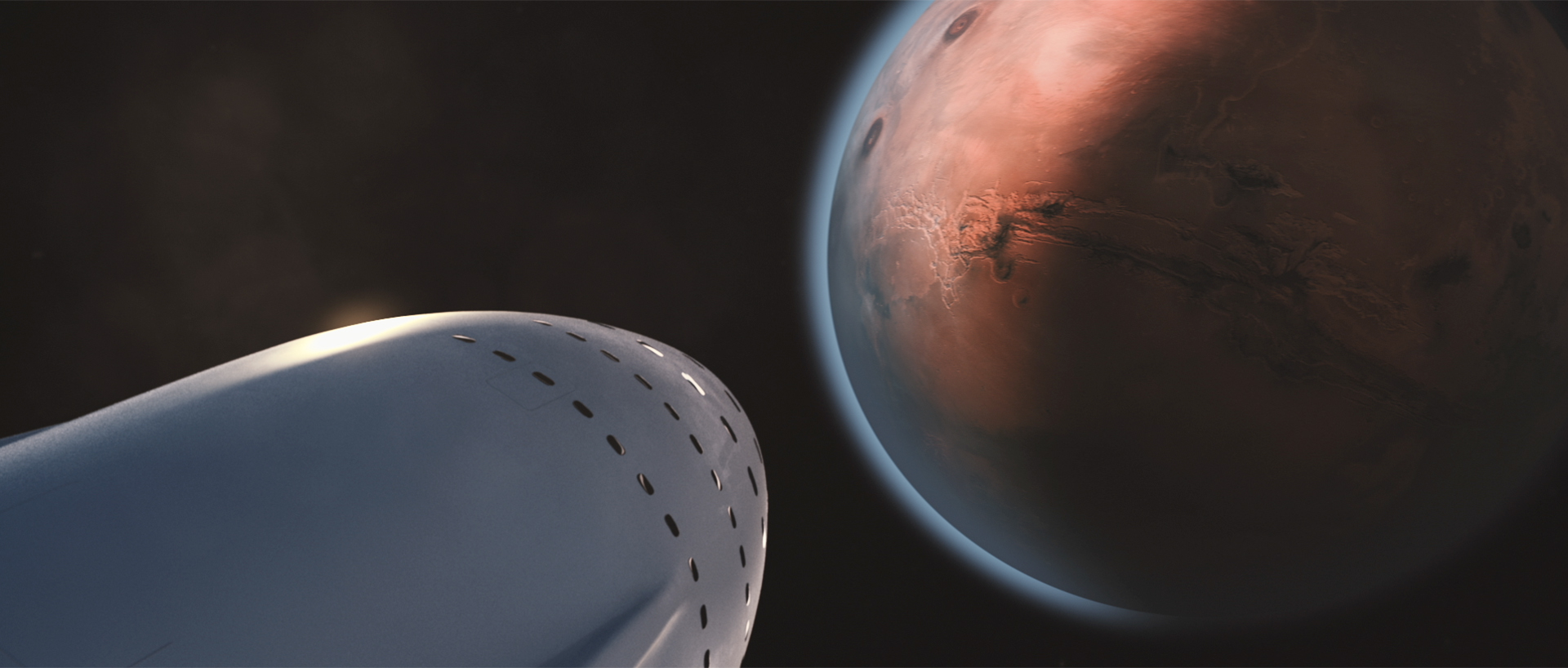 Interplanetary Spaceship, arriving Mars.